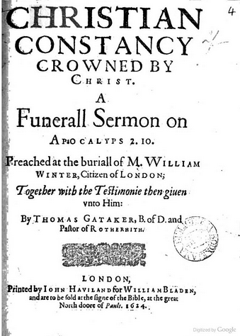 Christian constancy crowned by Christ, a funeral sermon, preached, 1624, Thomas Gataker (1574-1654)